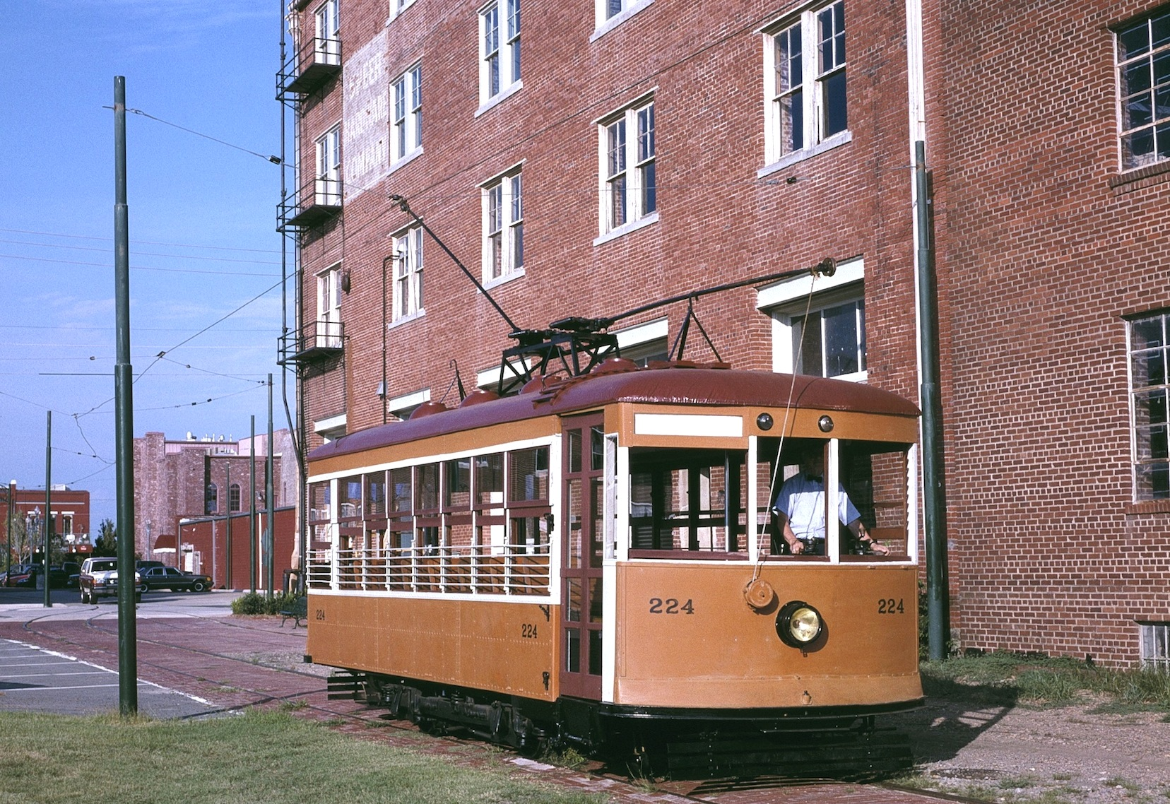 Fort Smith streetcar No. 224, a Birney car built in 1926 for Fort Smith, Arkansas, is listed on the U.S. National Register of Historic Places (NRHP). It operates at the Fort Smith Trolley Museum, and is pictured just south of Rogers Avenue, on private right-of-way behind the Fort Smith Museum of History (located in the 1907 Atkinson-Williams Warehouse Building, also NRHP-listed).